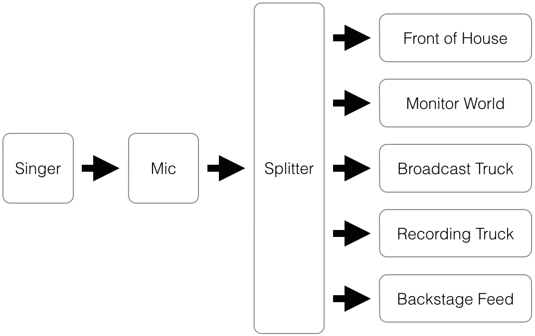 A diagram of the broadcast example found on the page Audio Signal Flow.